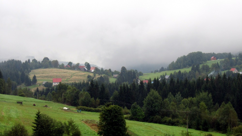 Klokočov near Hlavice